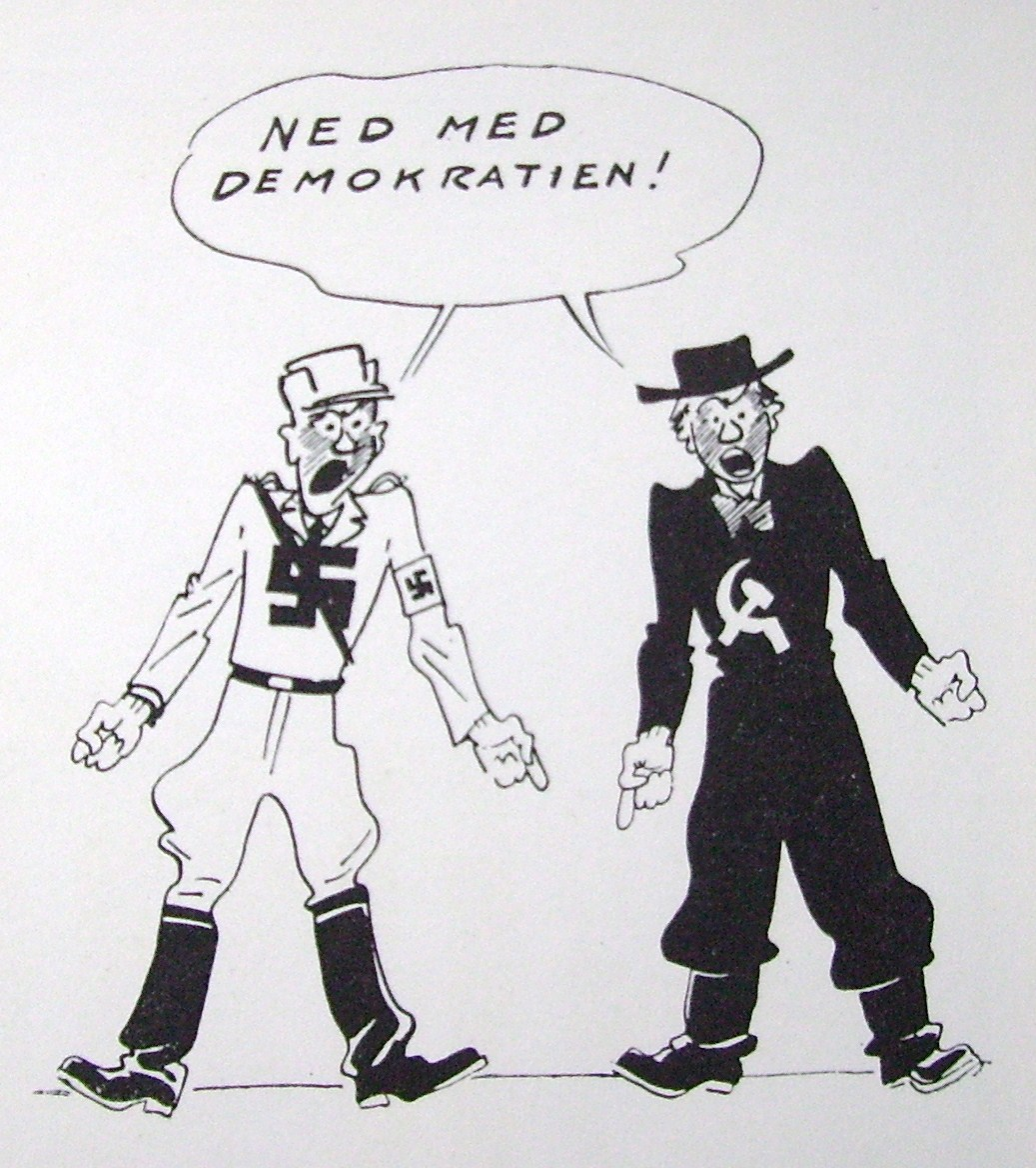 Picture of Swedish conservative drawing that depicts ideological connection between Nazism and Communism